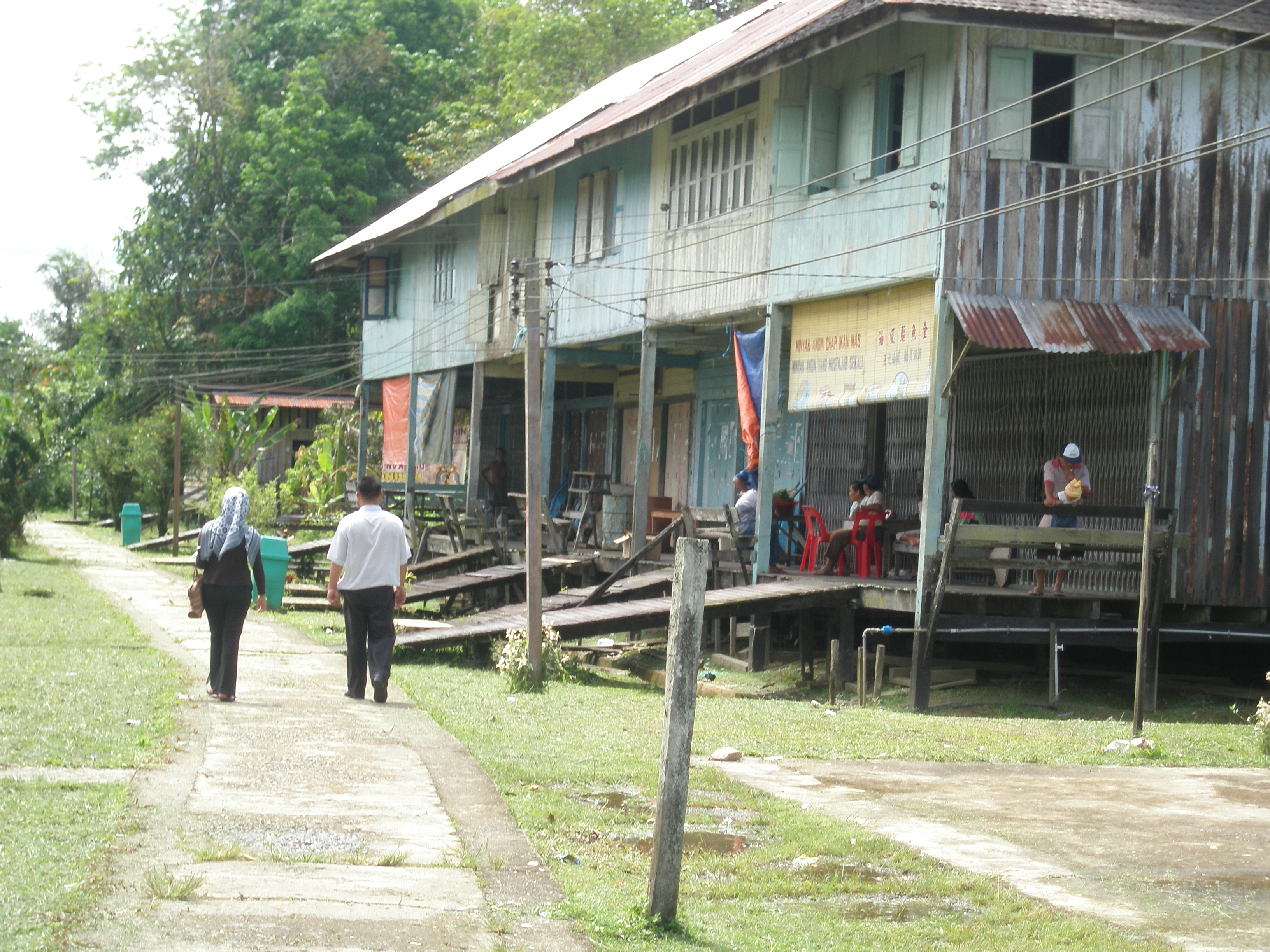 Labang Small Town